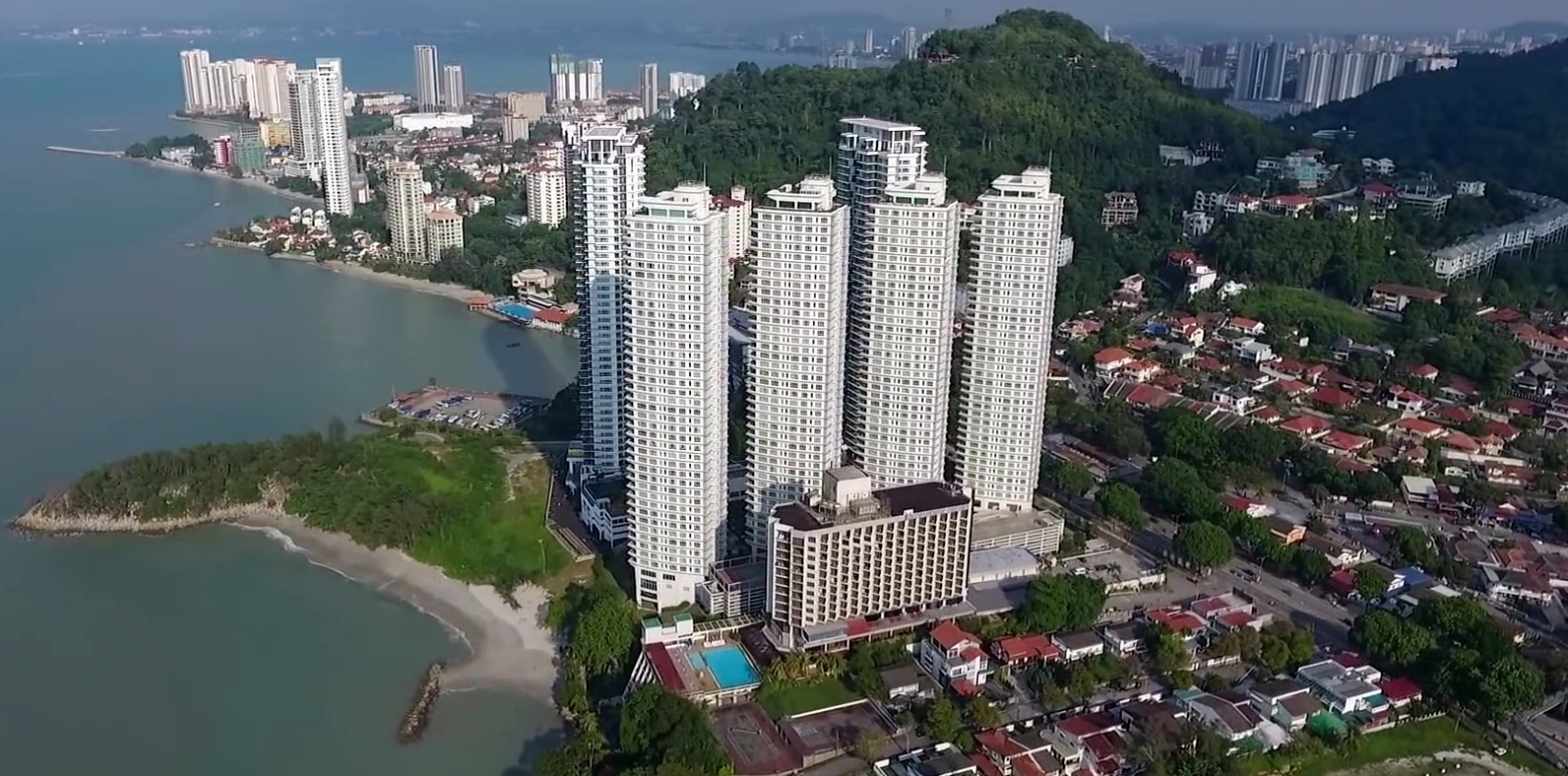 The Cove at the Tanjung Bungah suburb near George Town in Penang, Malaysia